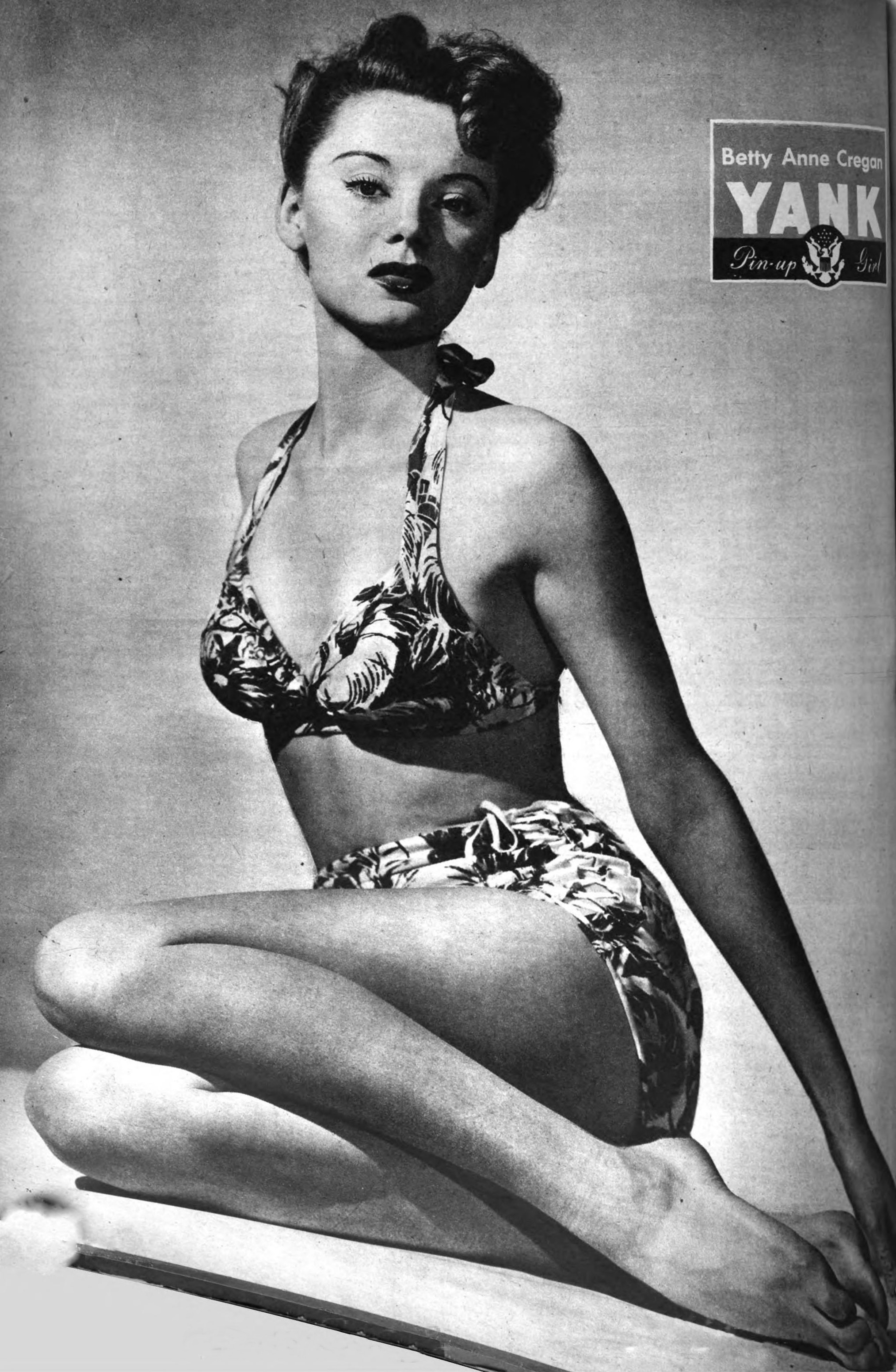 Pin-up photo of Betty Anne Cregan for the Dec. 7, 1945 issue of Yank, the Army Weekly, a weekly U.S. Army magazine fully staffed by enlisted men.